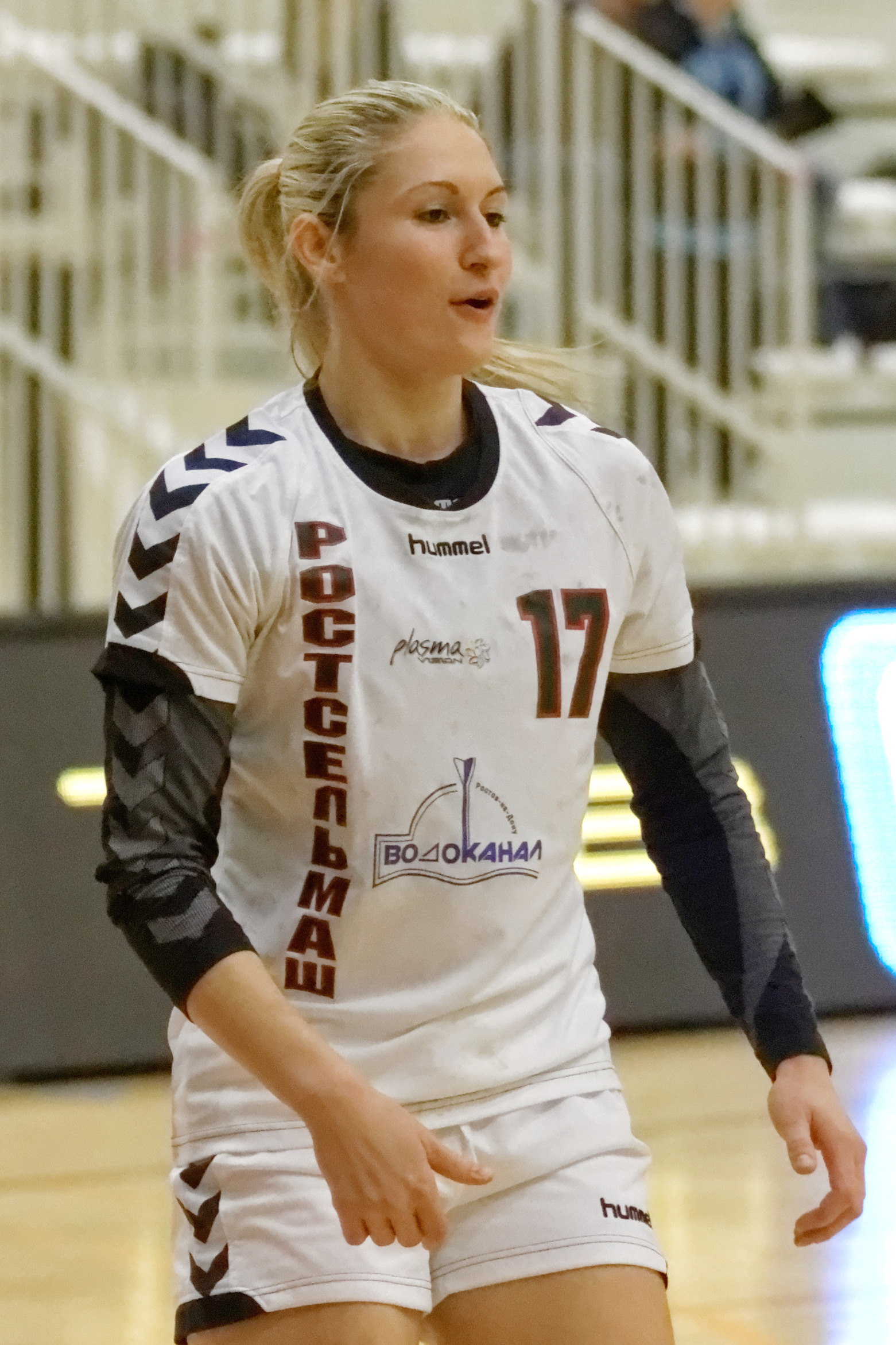 Semi-final EHF Cup Winners' Cup. Issy Paris Hand - Rostov-Don, 5 April 2013. Vladlena Bobrovnikova (Rostov Don).